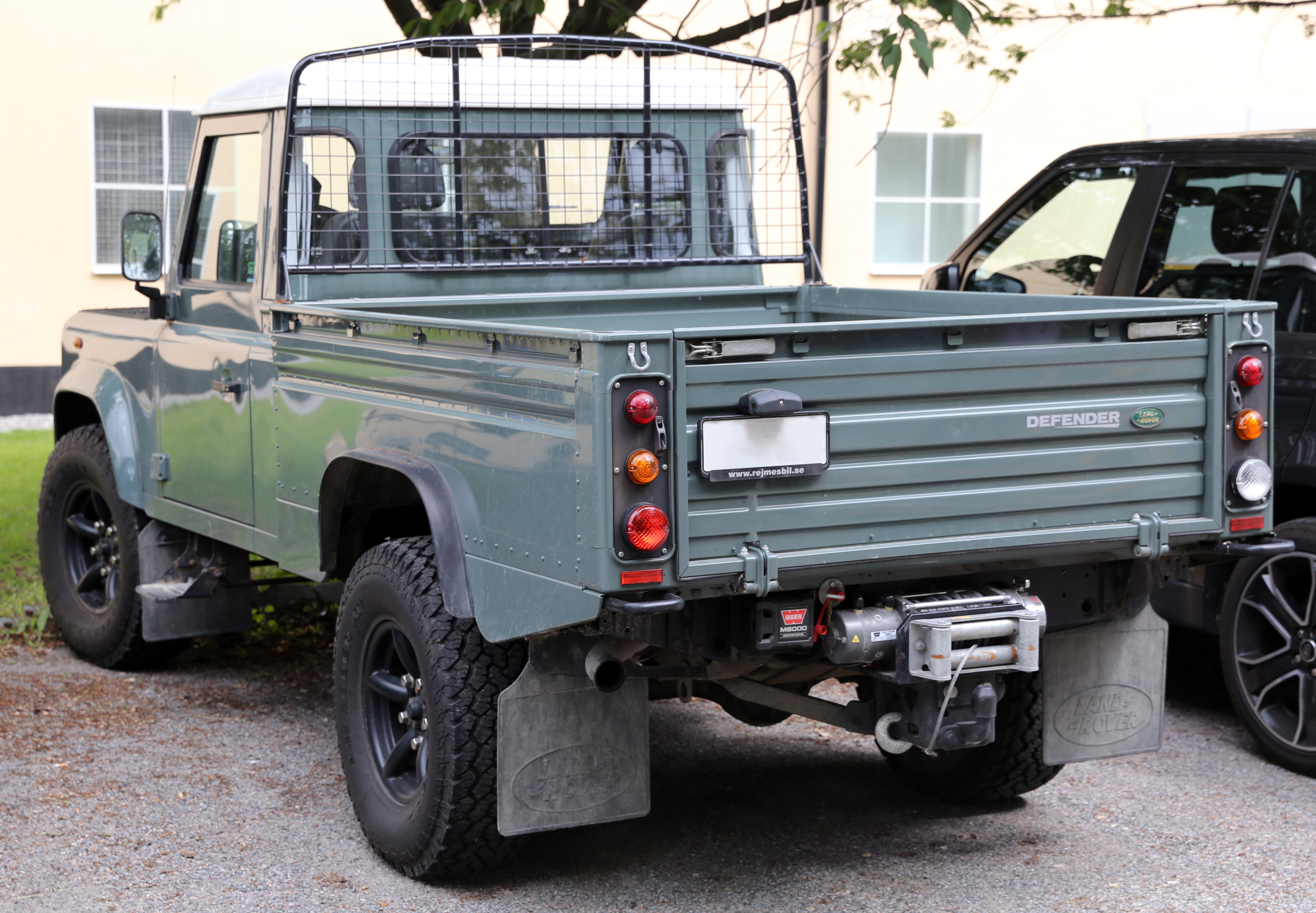 2009 Land Rover Defender 110 Pickup, with the 2.4 liter 122 PS Puma diesel engine. In Stockholm, Sweden.